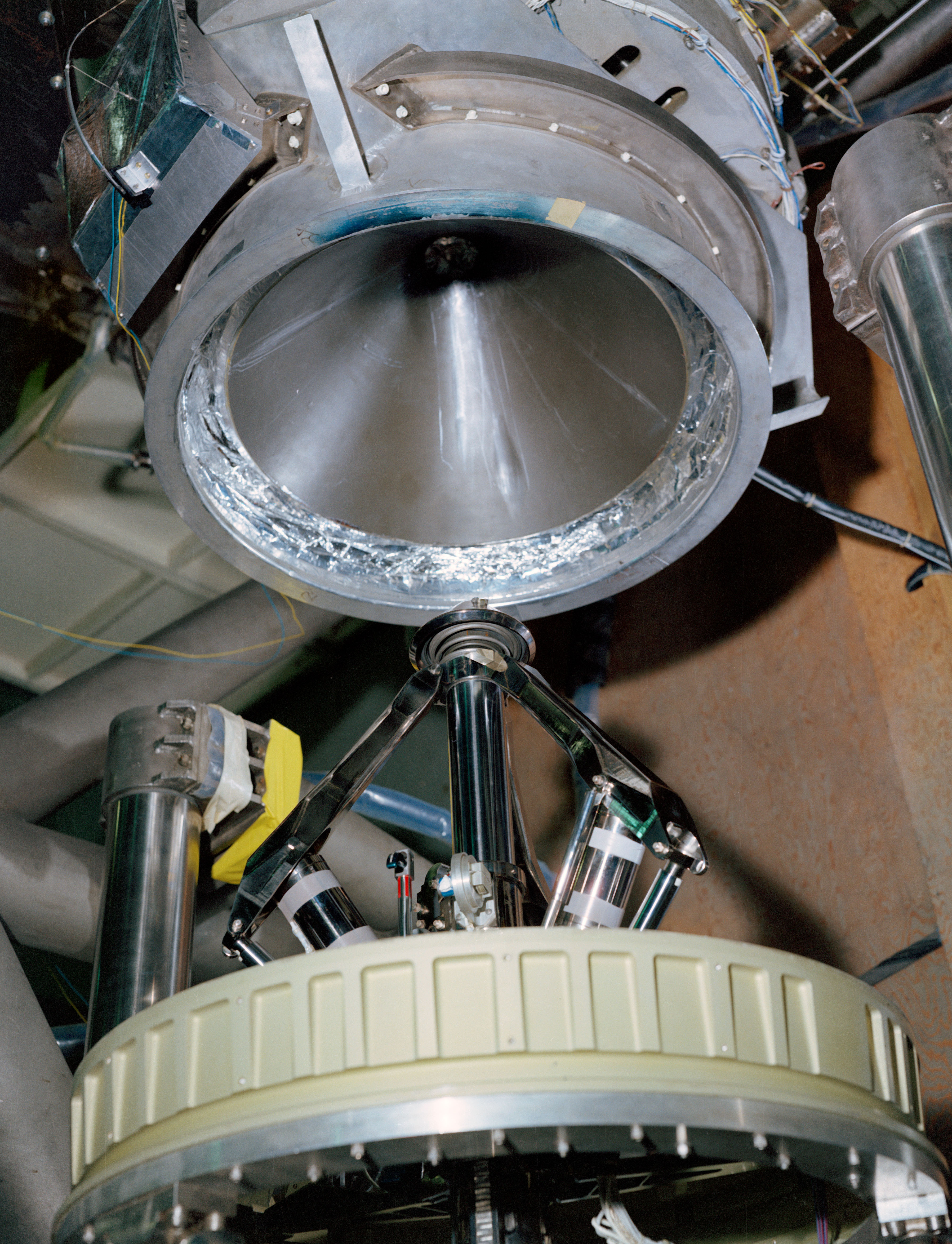 An engineering set up illustrating the docking system of the Apollo spacecraft. During docking maneuvers the docking probe on the Command Module engages the cone-shaped drogue of the Lunar Module. The primary docking structure is the tunnel through which the astronauts transfer from one module to the other. This tunnel is partly in the nose of the Command Module and partly in the top of the Lunar Module. Following CSM/LM docking the drogue and probe are removed to open the passageway between the modules.